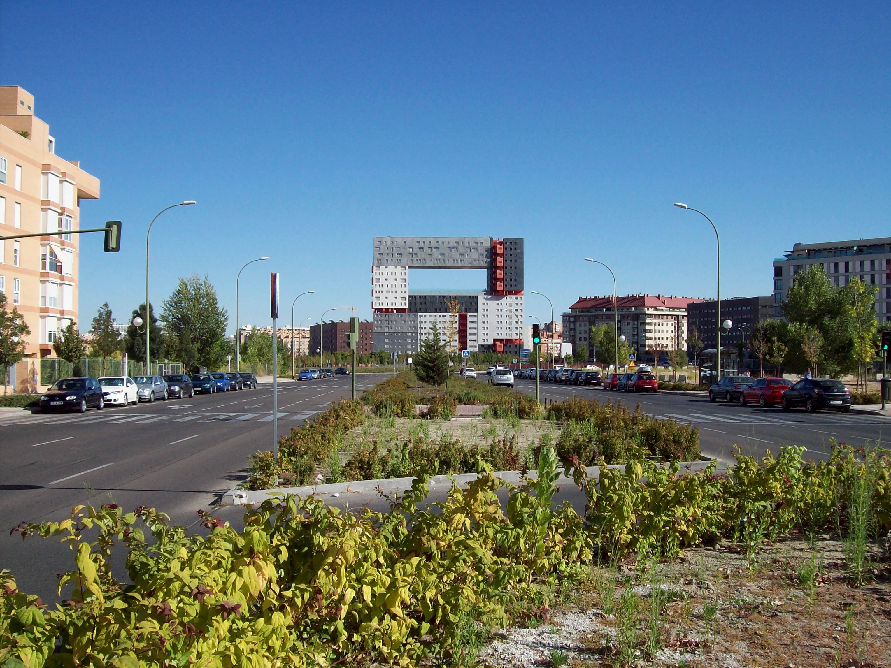 View from Avenida de Francisco Pi i Margall (an avenue) in Hortaleza district in Madrid (Spain). Background: Mirador Building.